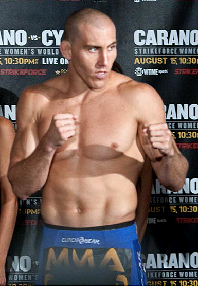 Jesse Taylor weighs in for Strikeforce: Carano vs. Cyborg in San Jose, California on August 14, 2009.